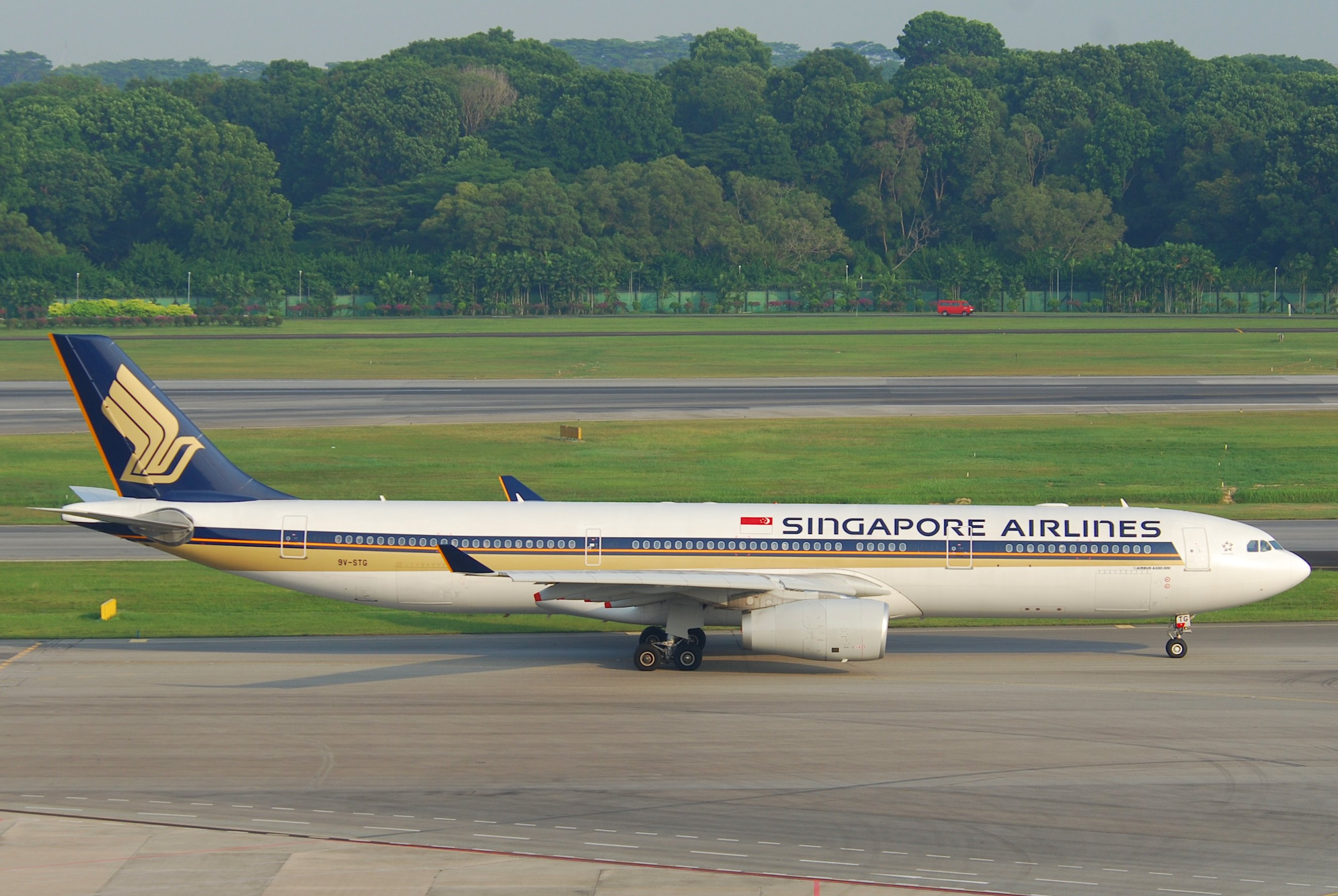 Singapore Airlines Airbus A330-300; 9V-STG@SIN;07.08.2011/617cg